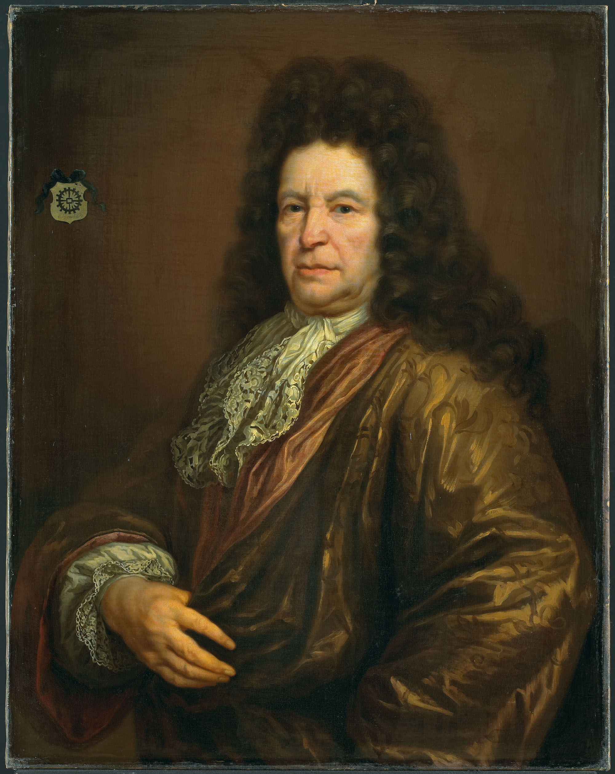 Diederik van Hoogendorp, 1625-1702, Dutch nobleman